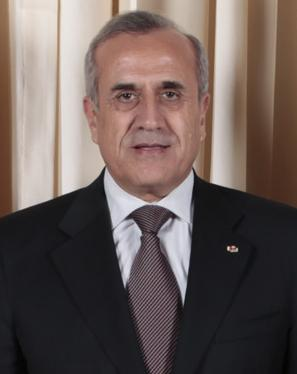 Michel Suleiman.